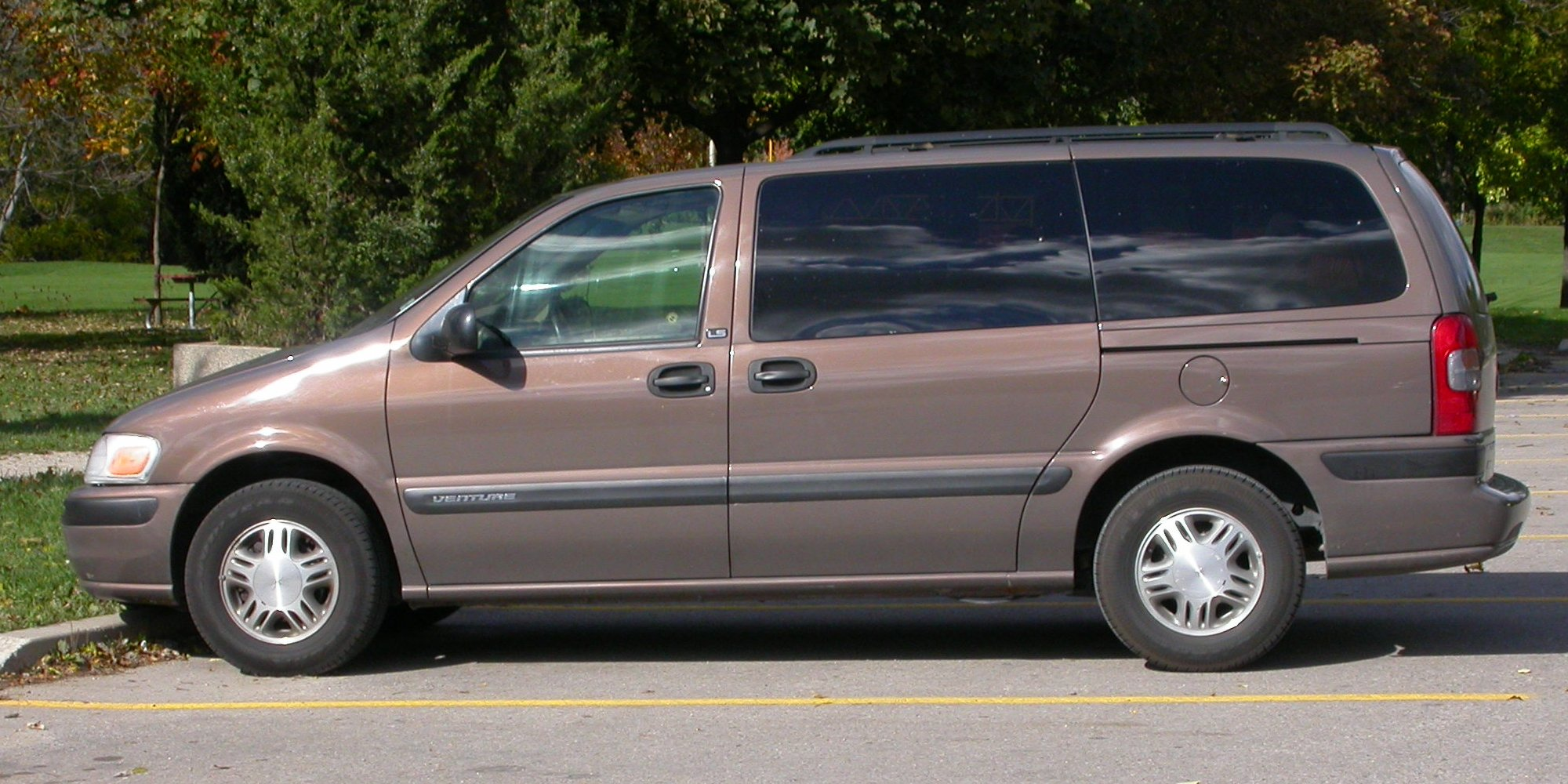 Photograph of a Chevrolet Venture. Photo taken October 15, 2005 by James Yolkowski (User:JYolkowski).